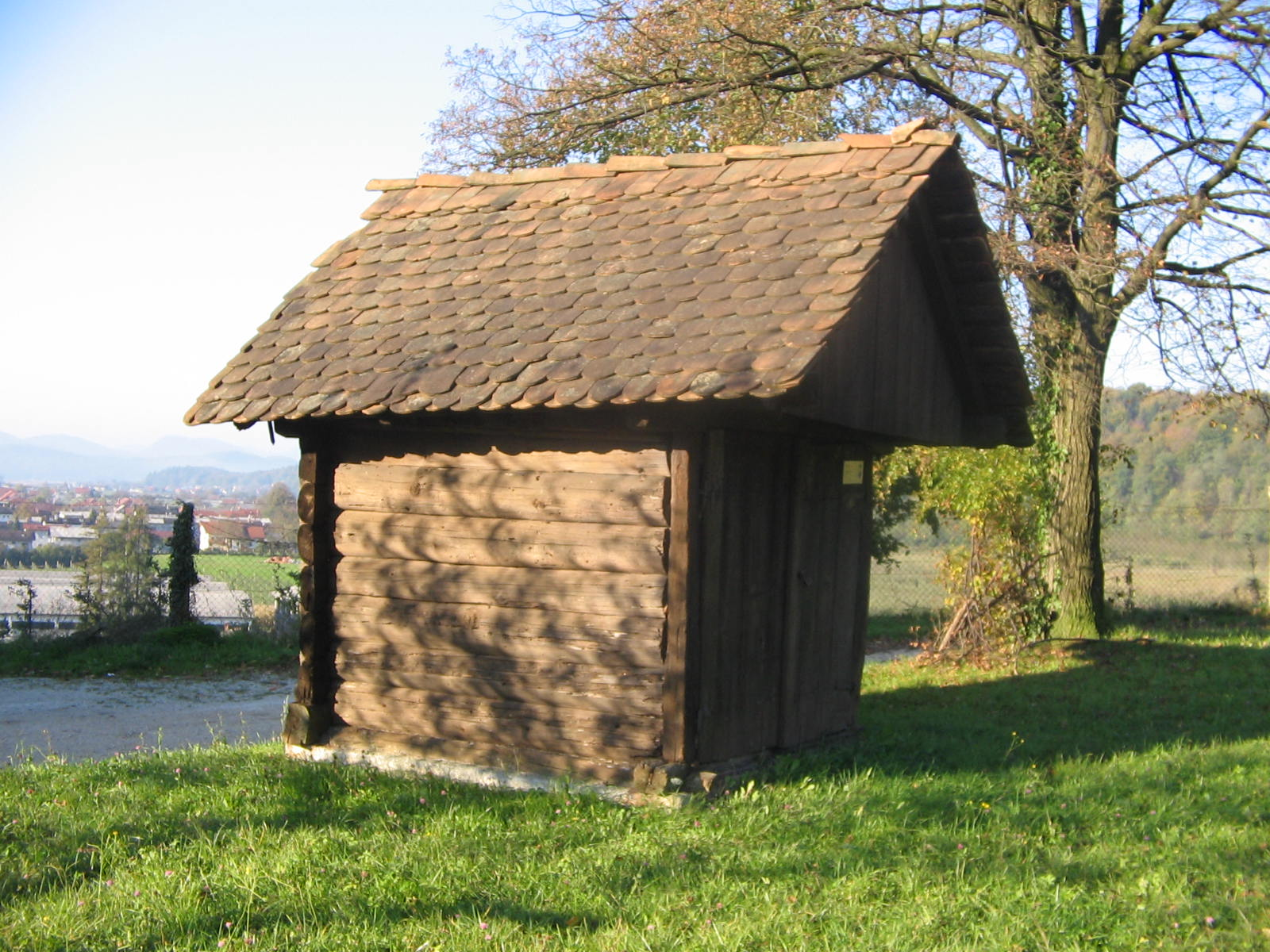 Open air museum Zaprice, the drying house for fruits, 20th century Quelle: eigene Aufnahme 18. 10. 2005 Fotograf: Janez Novak, Ljubljana, Slovenija